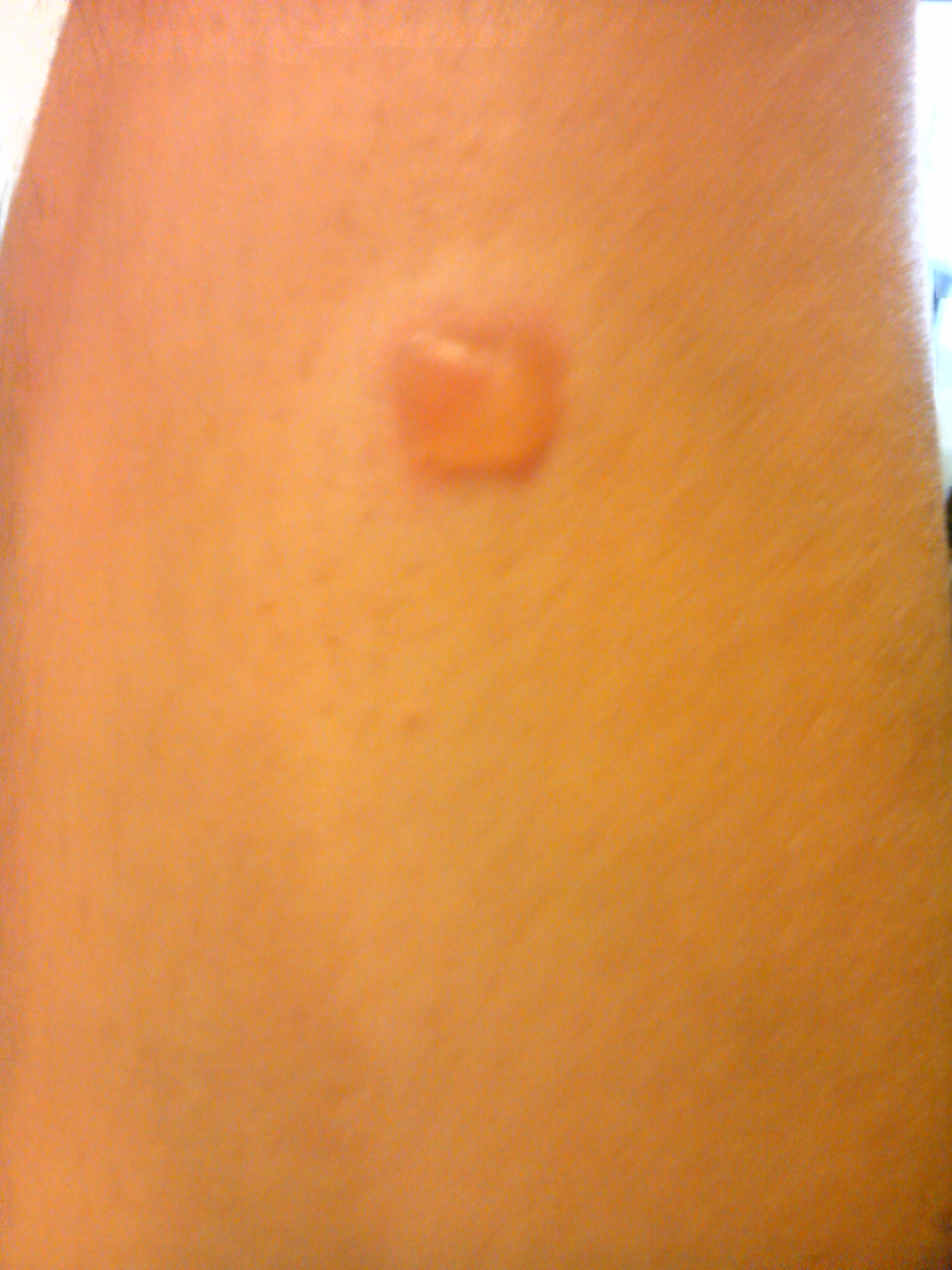 serous inflammation with burn